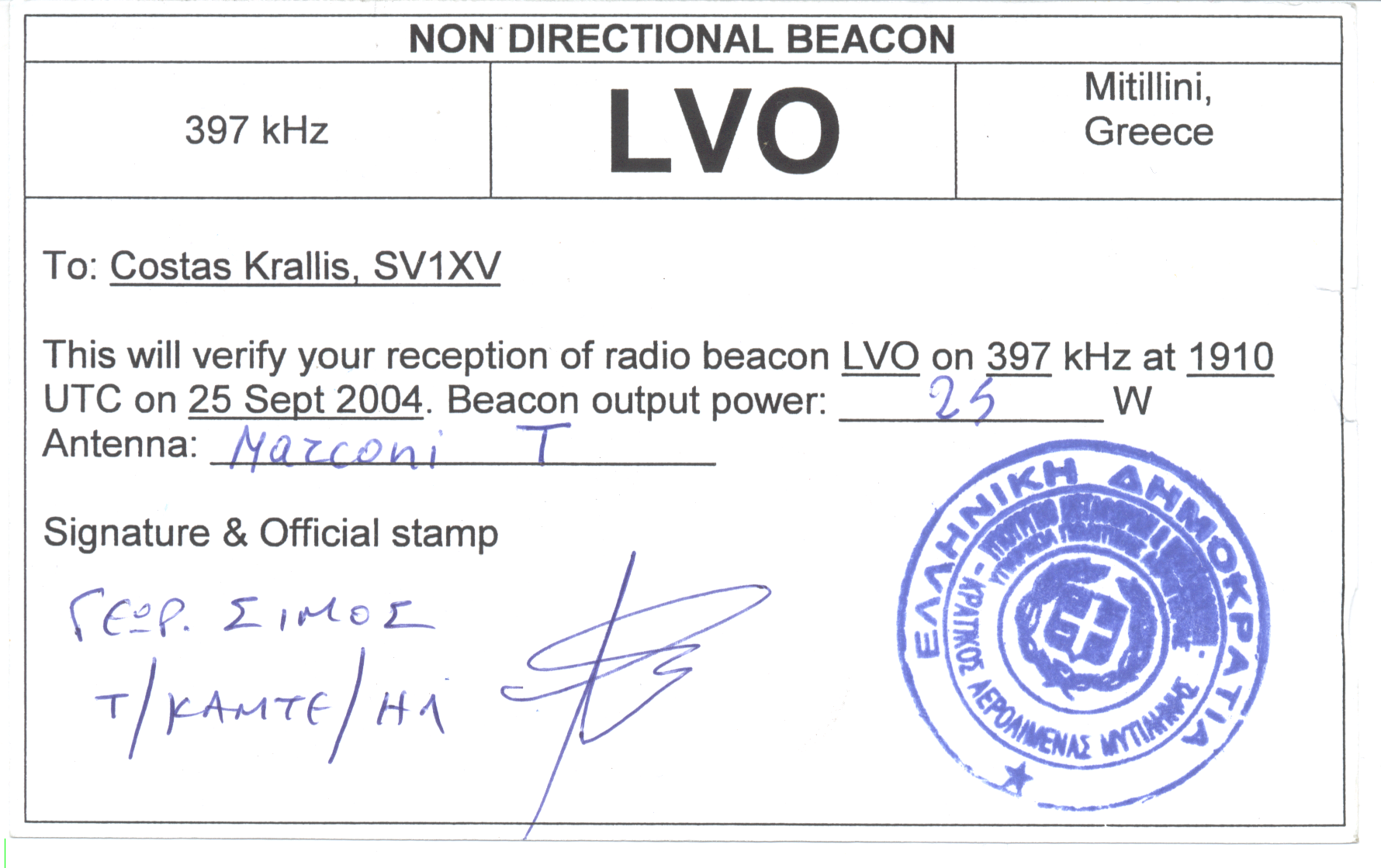 PFC QSL card confirming reception of aeronavigation NDB LVO on 397 kHz.